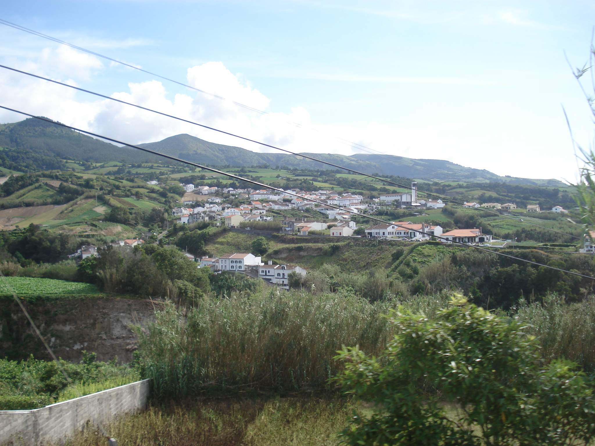 The civil parish of Ribeira Chã near the frontier with Vila Franca do Campo, municipality of Lagoa, island of São Miguel, Azores